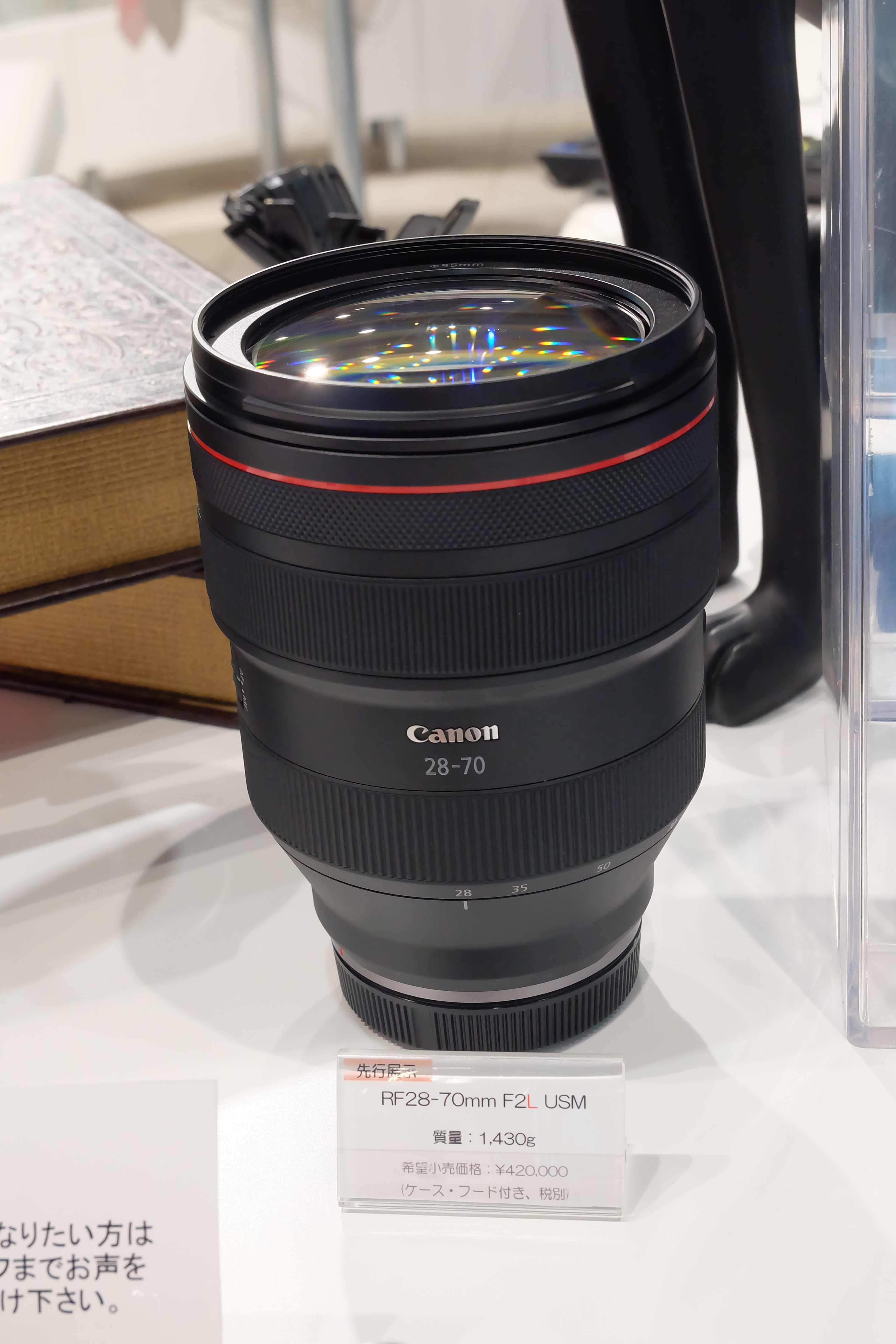 Canon RF mount lens RF28-70mm F2 L USM, photo taken at Canon Gallery S on Shinagawa, Tokyo, Japan